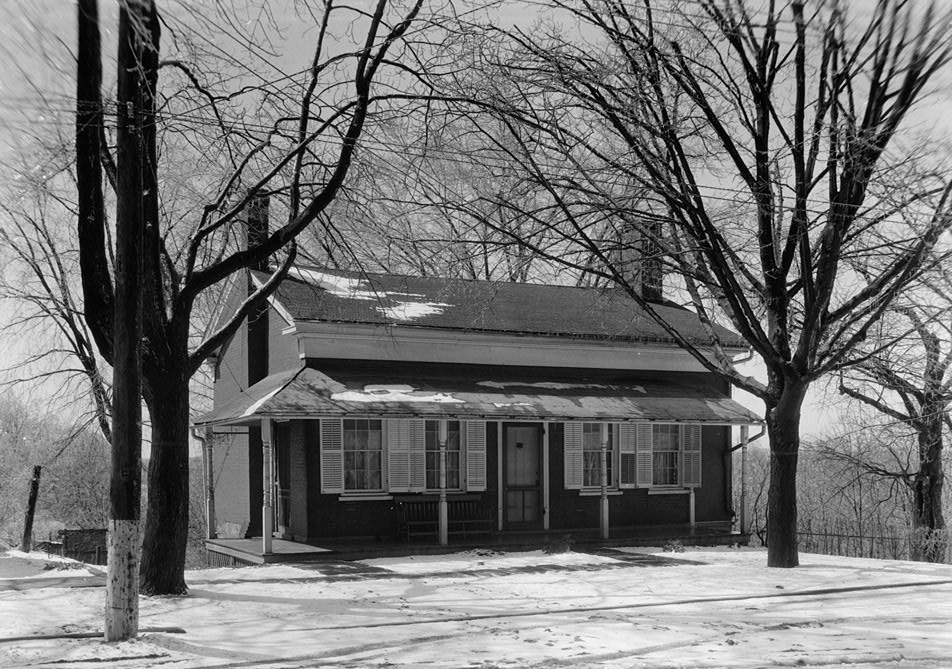 Birthplace of Thomas Edison, Front Street & Choate Avenue, in Milan, Ohio.